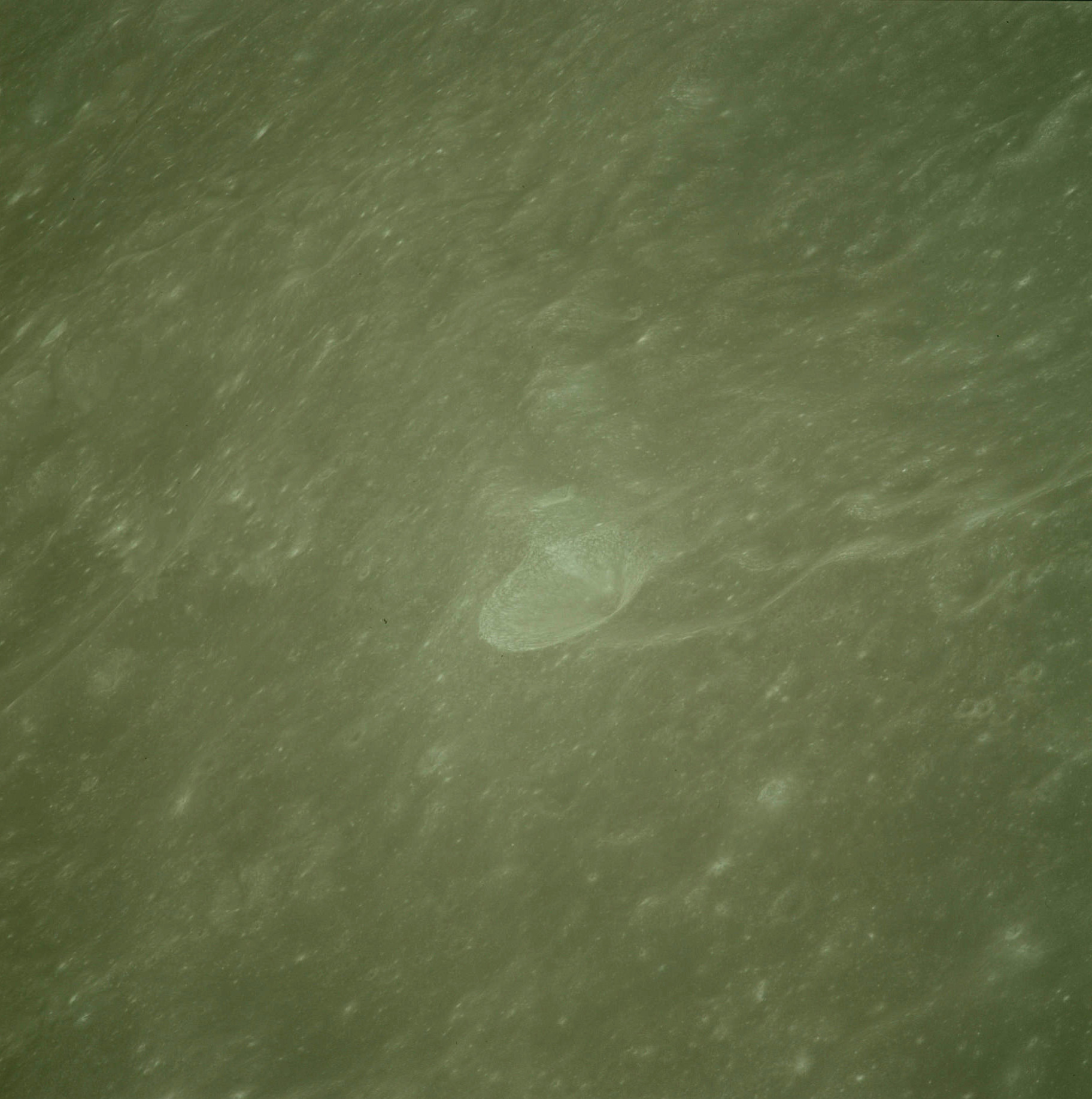 Oblique view of part of Einthoven crater, on the far side of the moon. Brightness and contrast adjusted.